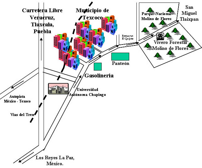 Map to Molino de Flores Nezahualcóyotl National Park — near Texcoco, in the Municipality of Texcoco, México state.